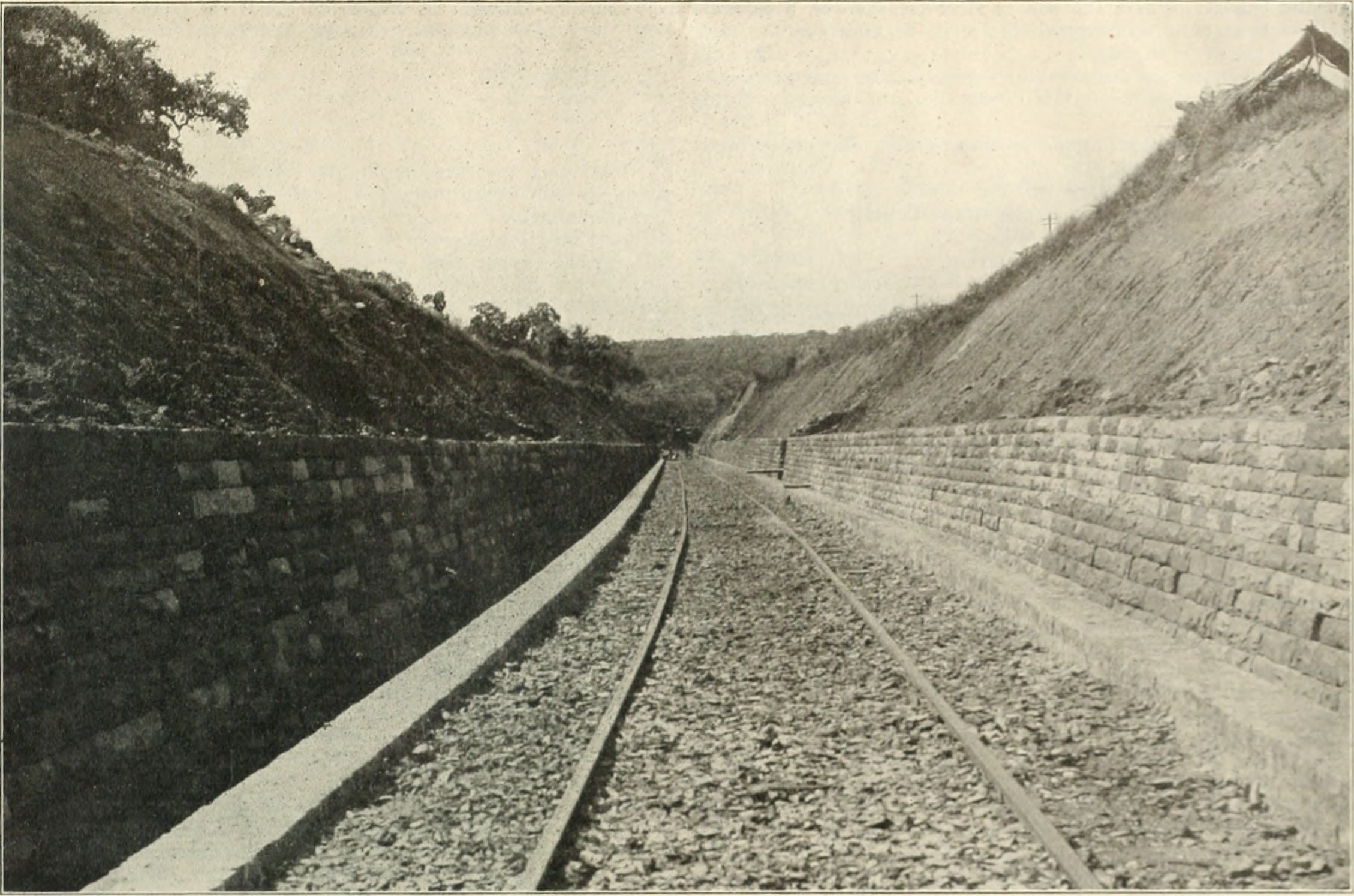 Title: Railway age Year: 1870 (1870s) Authors: Subjects: Railroads Publisher: New York (etc.) R.G. Lewis (etc.) Text Appearing Before Image: The drainage and masonry protection of cuts through water-bearing ground is carried out on a much more enduring and ex-pensive scale in Europe and some European possessions than inthe Initcd States. The photographs show the summit cut in thePurrah hills on the Nagda-Muttra Statt* R.iilway. India. The maxi-mum depth of the cut Is 3S ft. It is through boulderclay or treach-erous yellow clay, mingled with black iKittom soil. When it wtisfirst excavated, water ran through it for some morths In a stream,owing to percolation from the neighboring hills, and a man wouldsink up to his waist in the slushy soil. Continuous drains 3 ii.X 3 ft., a mile long, have been made through the whole cut. witha ballast wall on one side and a massive revetment wall of drystone on the other side. Both the revetment walls and ballastwalls are amply provided with weep-holes, and are founded on abed of concrete. Between the ballast walls there is a deep layer of dry stone May 15, 1908. THE RAILROAD GAZETTE. 677 Text Appearing After Image: Retaining Walls and Road Bed.